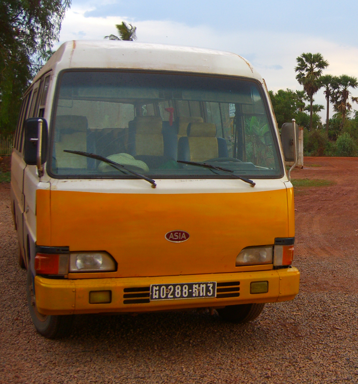 Asia Motors Combi AM815 minibus in Cambodia.